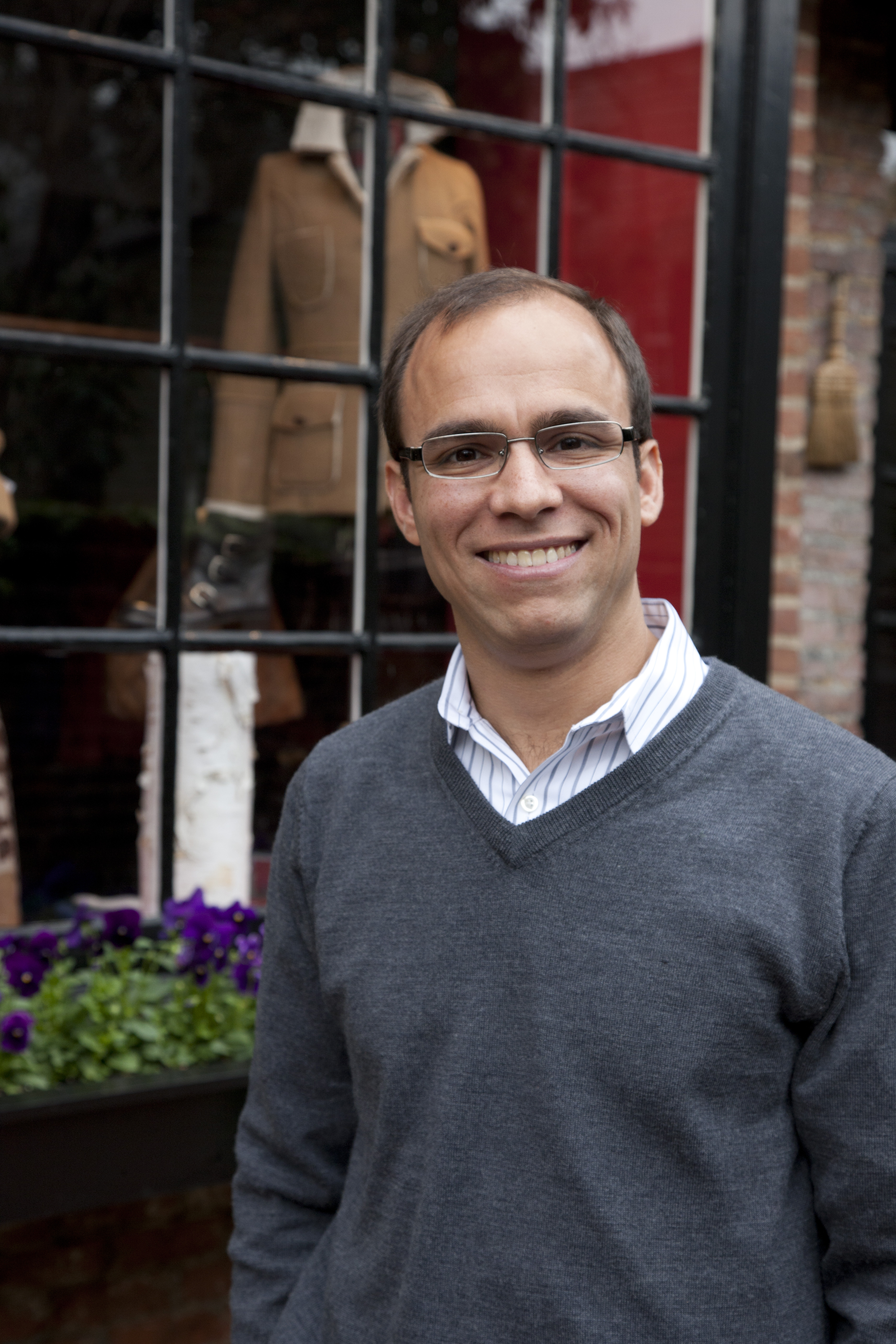 Photo of Justin Wilson in November of 2015